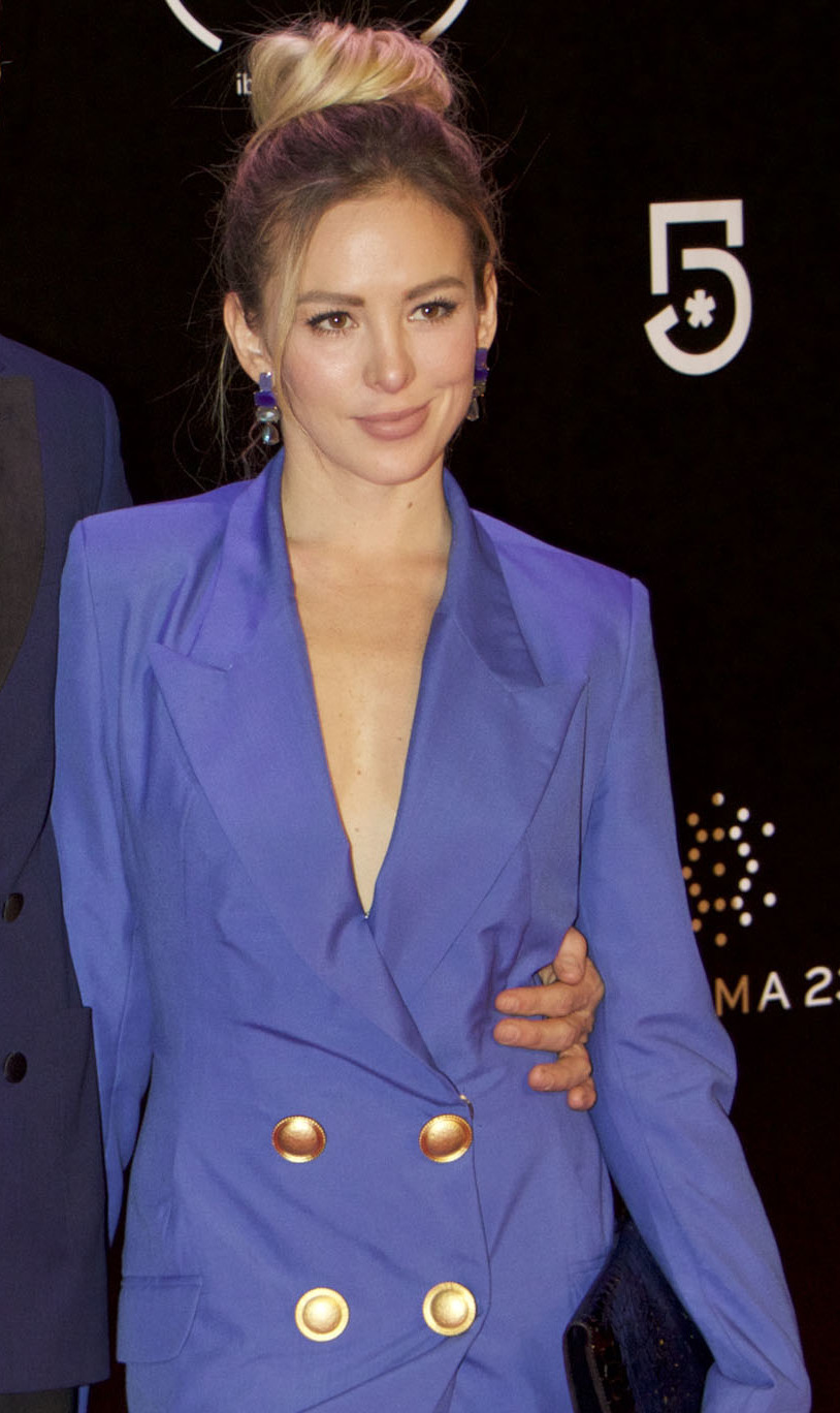 Michel Chauvet y Begoña Narváez on the red carpet of Fenix Awards 2018. 7, November, 2018. Mexico City. Picture by Milton Martinez / Secretaria de Cultura CDMX.